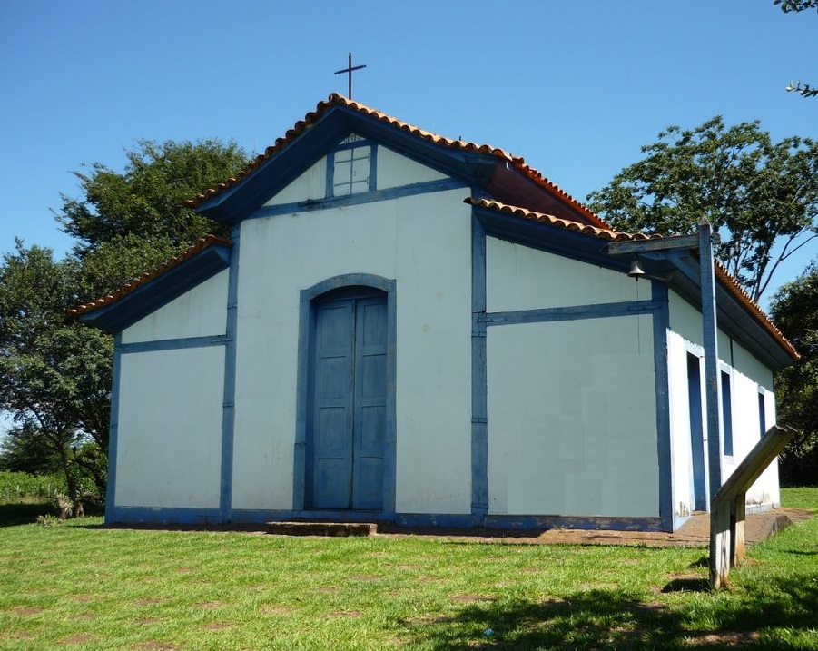 Igreja centro do distrito miraporanga uberlândia